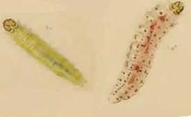 Stainton’s Natural History of the Tineina (1855–1873): Chrysoesthia drurella young larva (3a), adult larva (3a*)